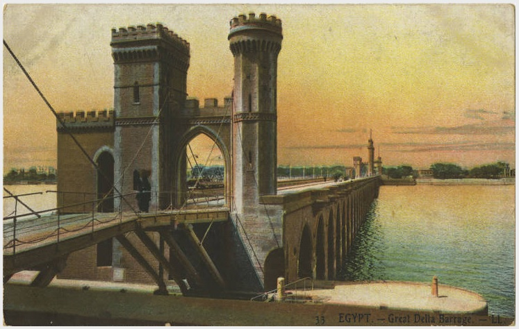 Front of a postcard showing the Nile Barrage.